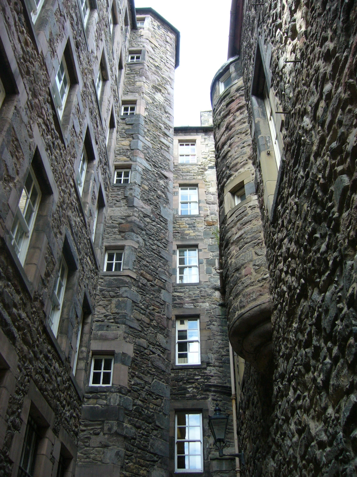 "The buildings are all of them of stone ... and those in the high street extremely elevated, especially behind, where some of them are ten or twelve stories; and one, I think, is said to be thirteen... The reason the buildings are so much higher behind than towards the street, is on account that they are situated on the edge of the hill, in order that the street might be wider, and take up the whole of the ridge, which is about thirty yards across. Their buildings are divided by extremely thick partition walls, into large houses, which are here called lands, and each storey of a land is called a house. (...) As each house is occupied by a family, a land, being so large, contains many families; that I make no manner of doubt but that the High Street in Edinburgh is inhabited by a greater number of persons than any street in Europe. The ground-floors and cellars are in general made use of for shops by the tradesmen; who here style themselves Merchants, as in France; and the higher houses are possessed by the genteeler people." -- Edward Topham, Letters from Edinburgh, 1774